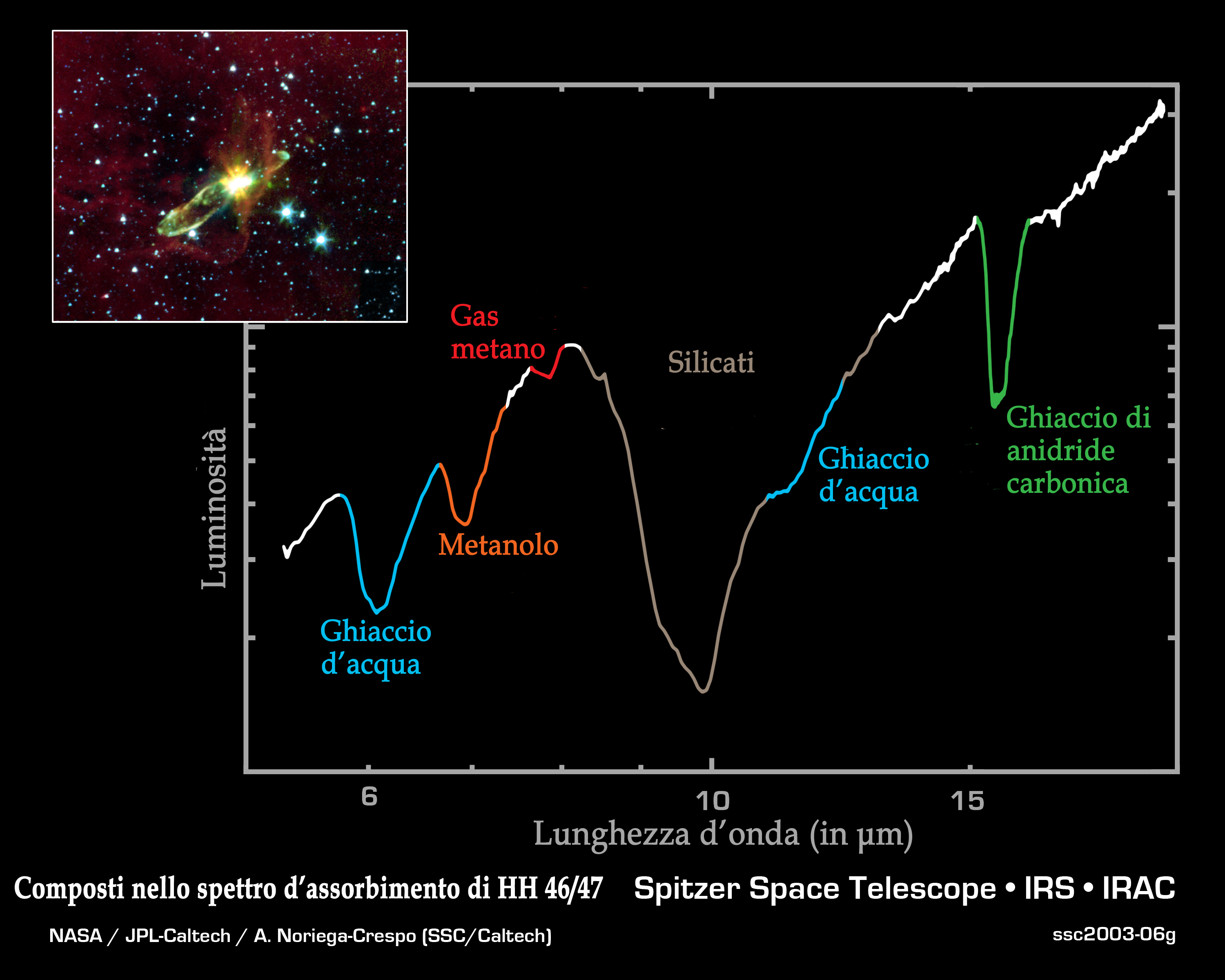 italian translation of Image:Ssc2003-06g.jpg